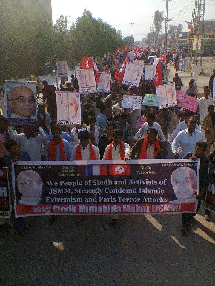 Nawabshah: JSMM activists condemned Paris terror attacks.